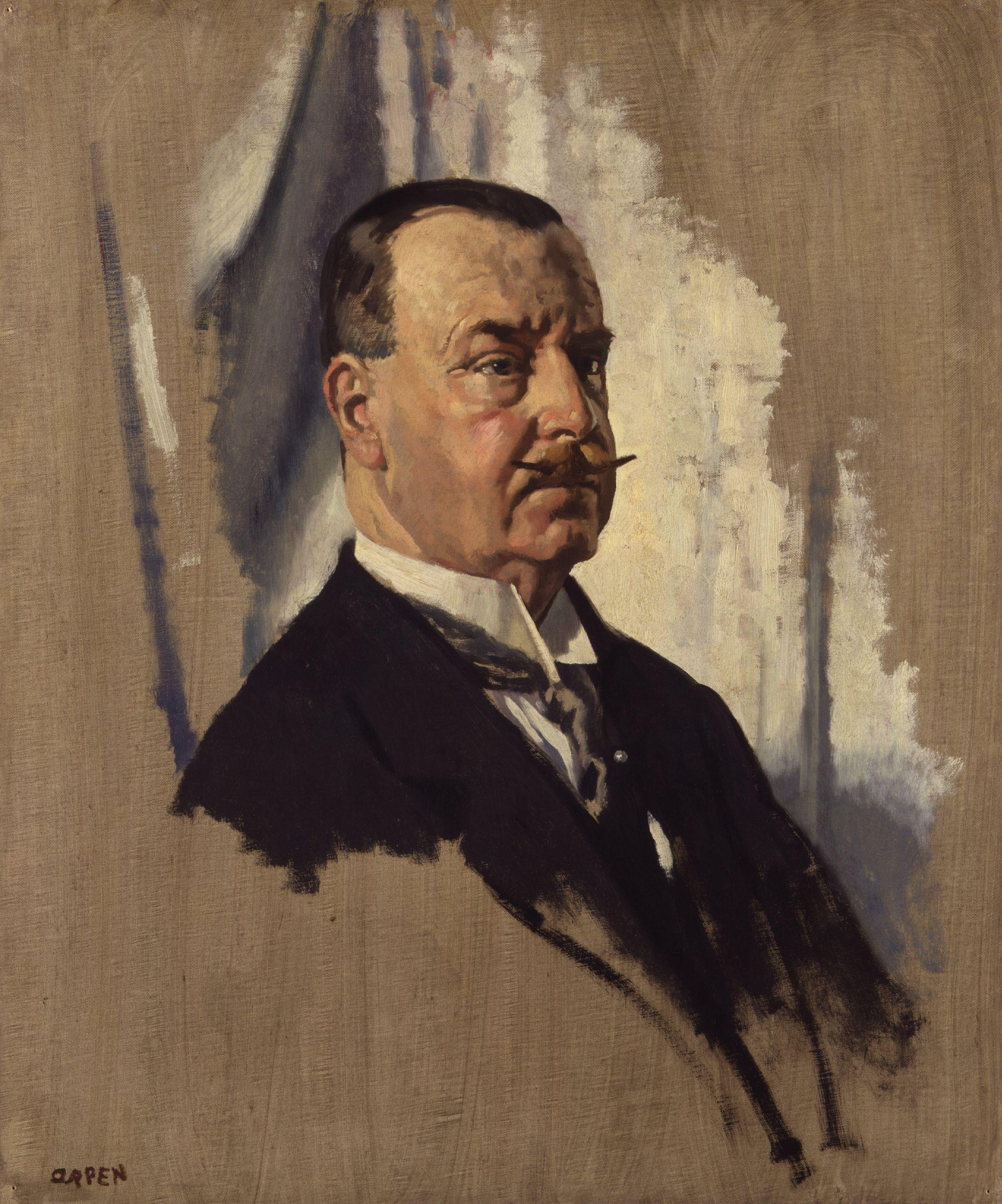 Sir Joseph George Ward, 1st Bt, by Sir William Orpen (died 1931), given to the National Portrait Gallery, London in 1933. All images in this batch have been confirmed as author died before 1939 according to the official death date listed by the NPG.